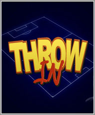 Throw in 0.8 Logo